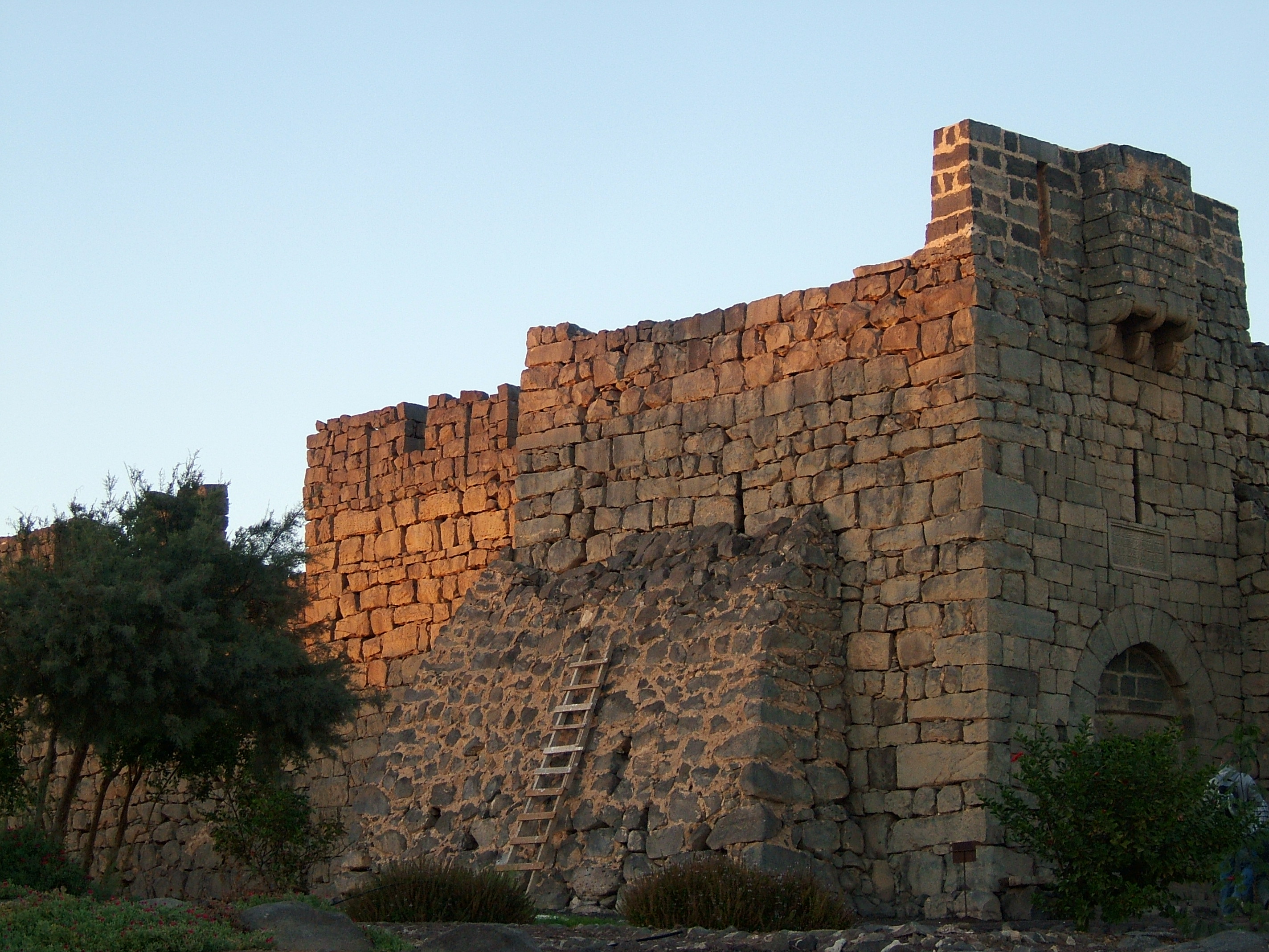 An Arabian Desert castle in Azraq, Jordan.